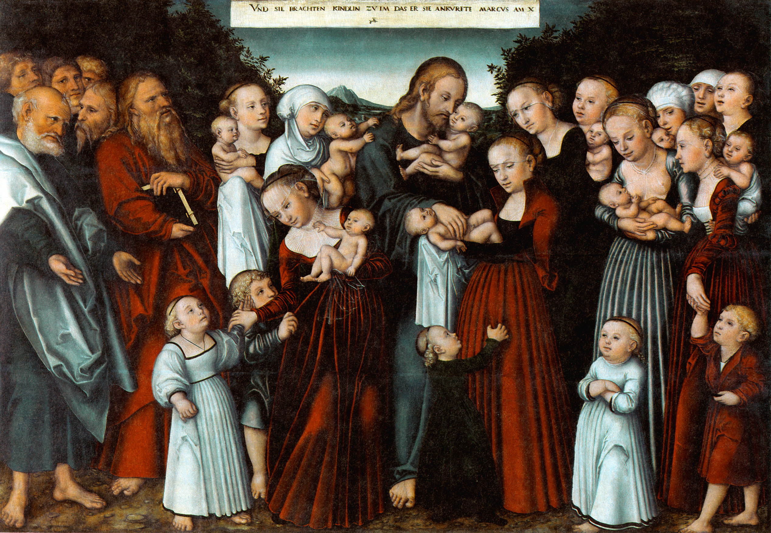 Lucas Cranach the Younger, Christ blessing the Children, Dresden Gemäldegalerie Alte Meister